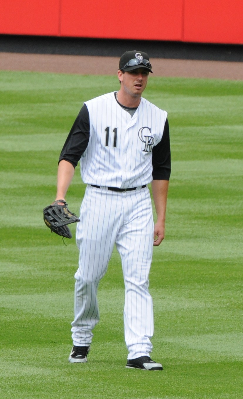 Description own work DateSourceI created this work entirely by myself.AuthorOnetwo1 (talk) 16:31, 8 August 2008 . . Onetwo1 . . 828×1,359 (246 KB) own work